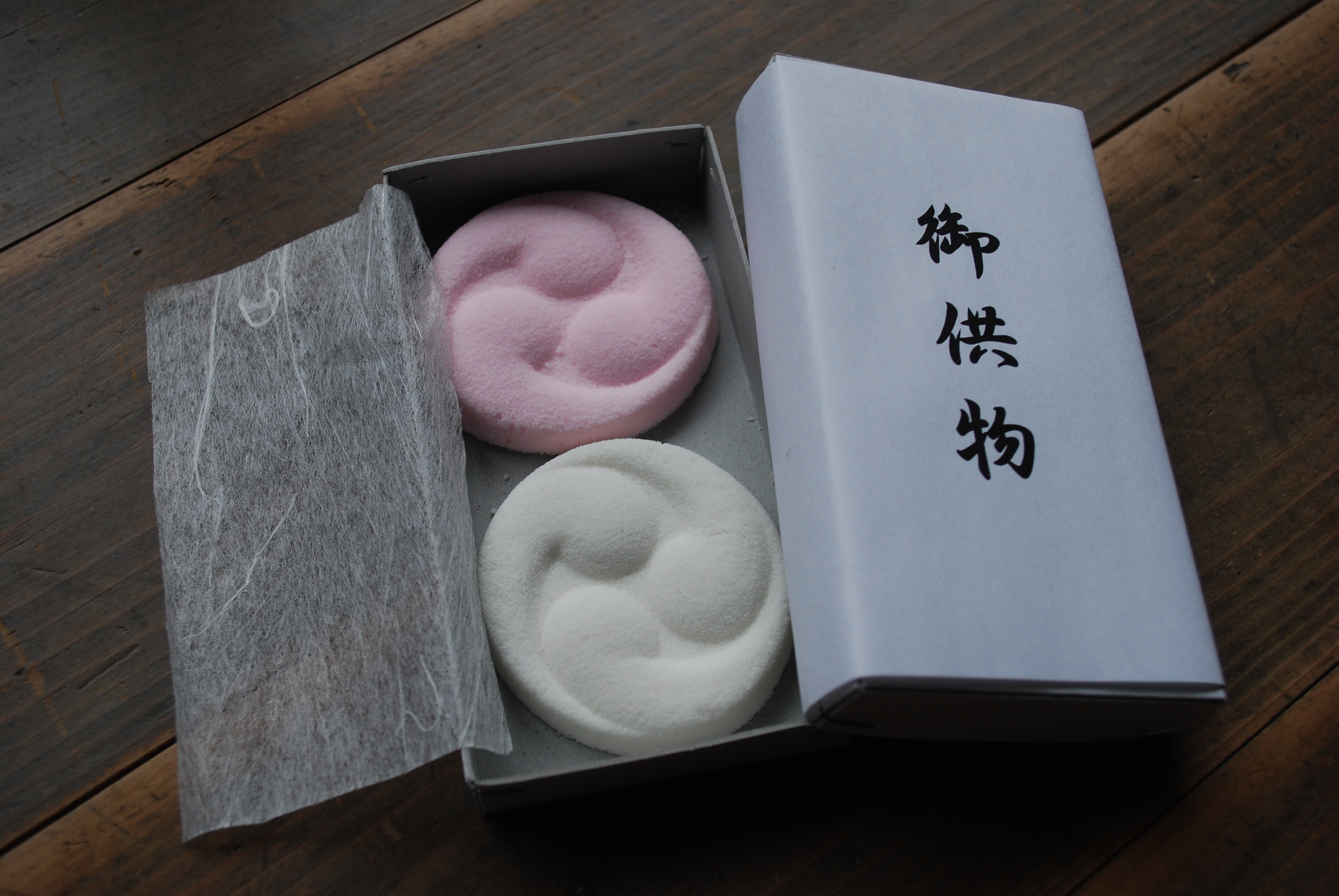 Rakugan.It mixes powder and sugar and starch syrup of rice and makes it. This is a Japanese traditional cake.